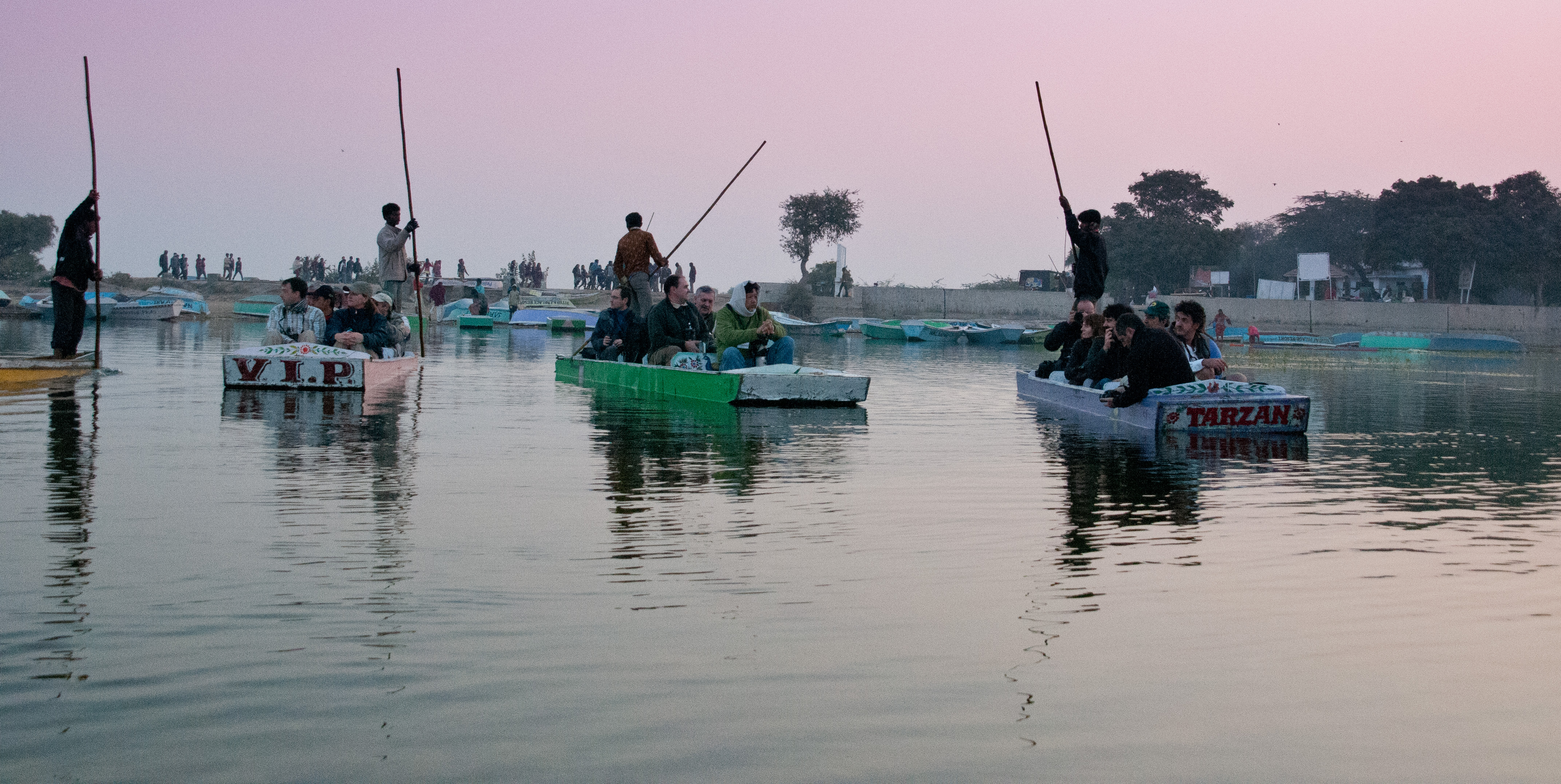 Boats leave at sunrise to take bird watchers out on the lake.